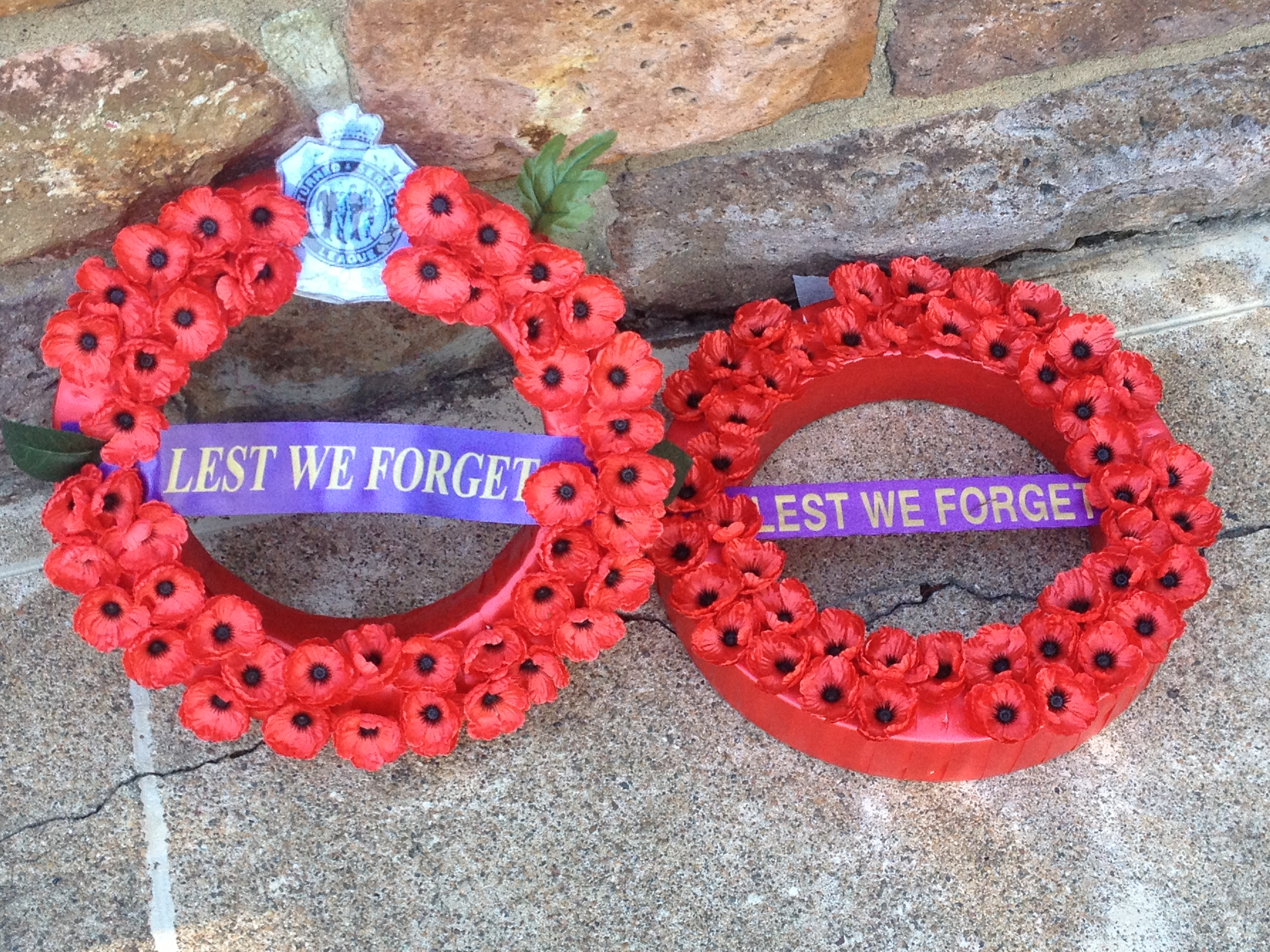 Memorial wreaths at the World War I Memorial in Hamilton, Brisbane, Queensland